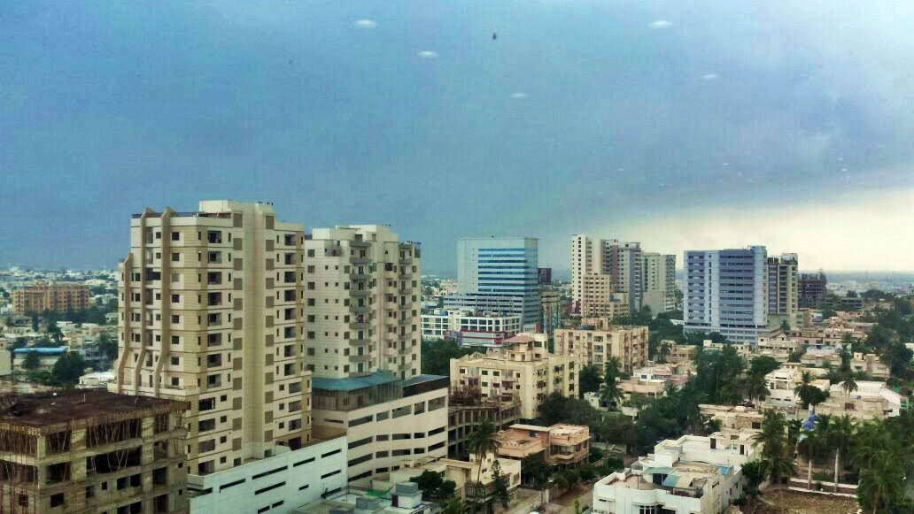 Area around Shaheed-e-Millat Road in Karachi just after rain.